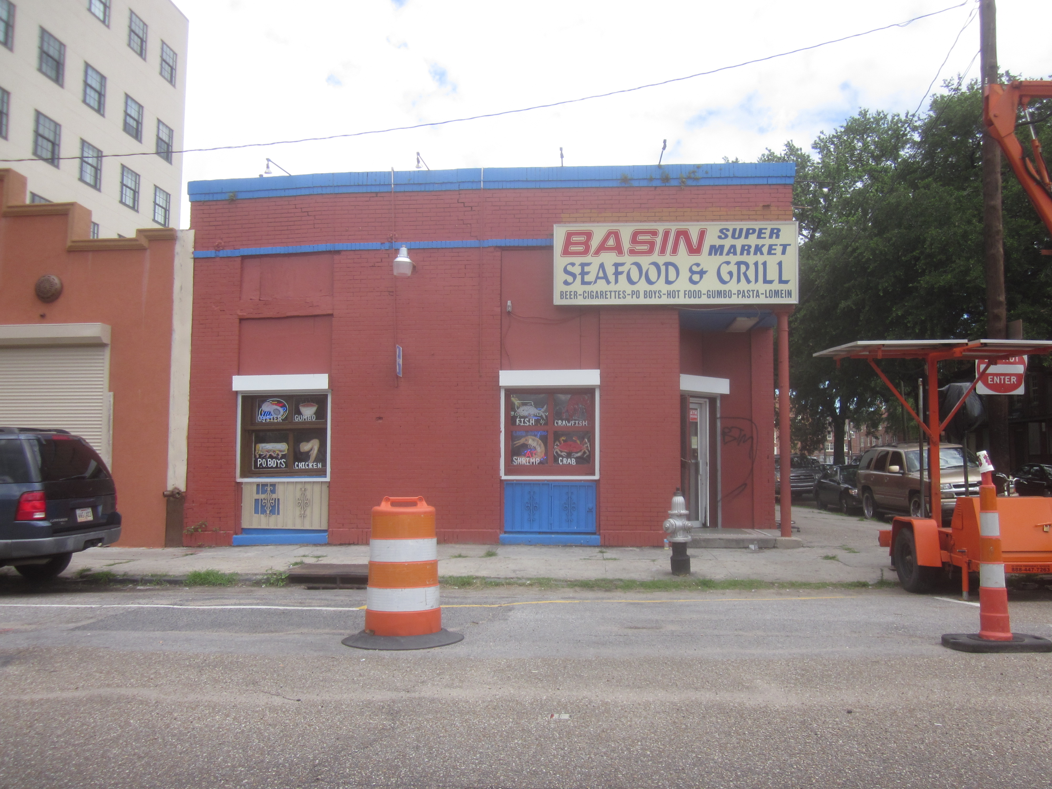 Bienville at Basin, uptown lake corner, New Orleans. Building is bottom floor of what had been Lulu White's Annex during Storyville. (The upper portion was badly damaged in Hurricane Betsy, only the ground floor was saved.)